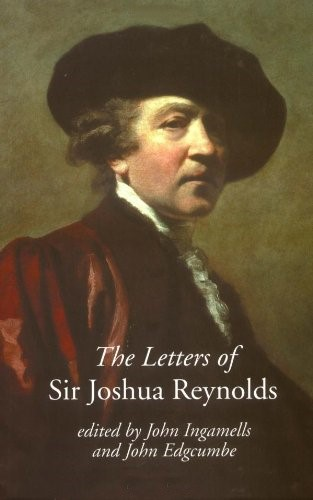 Self portrait of Joshua Reynolds on book cover of his letters